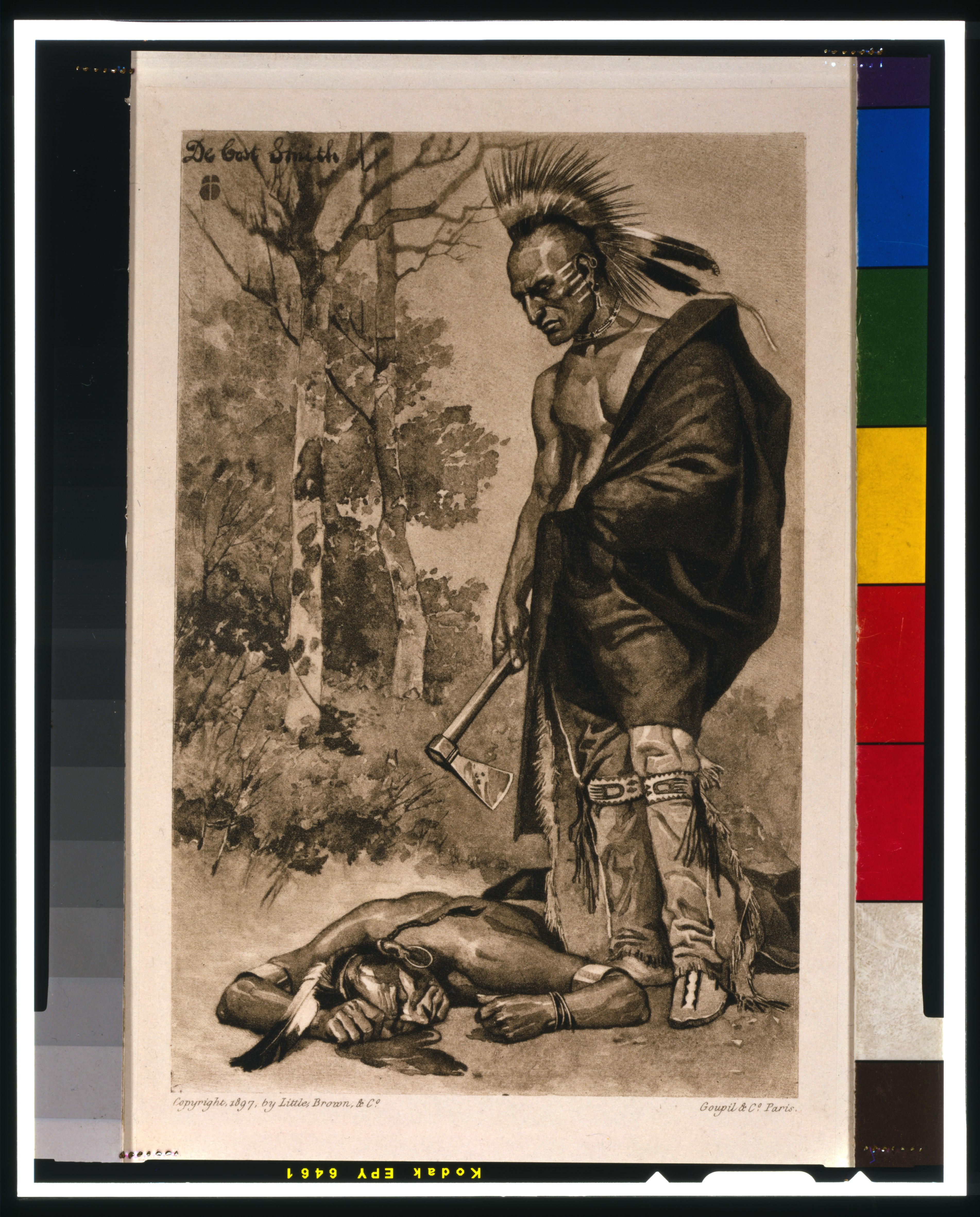 Title: The death of Pontiac / De Cost Smith ; Goupil & Co., Paris. Abstract/medium: 1 photomechanical print : photogravure.